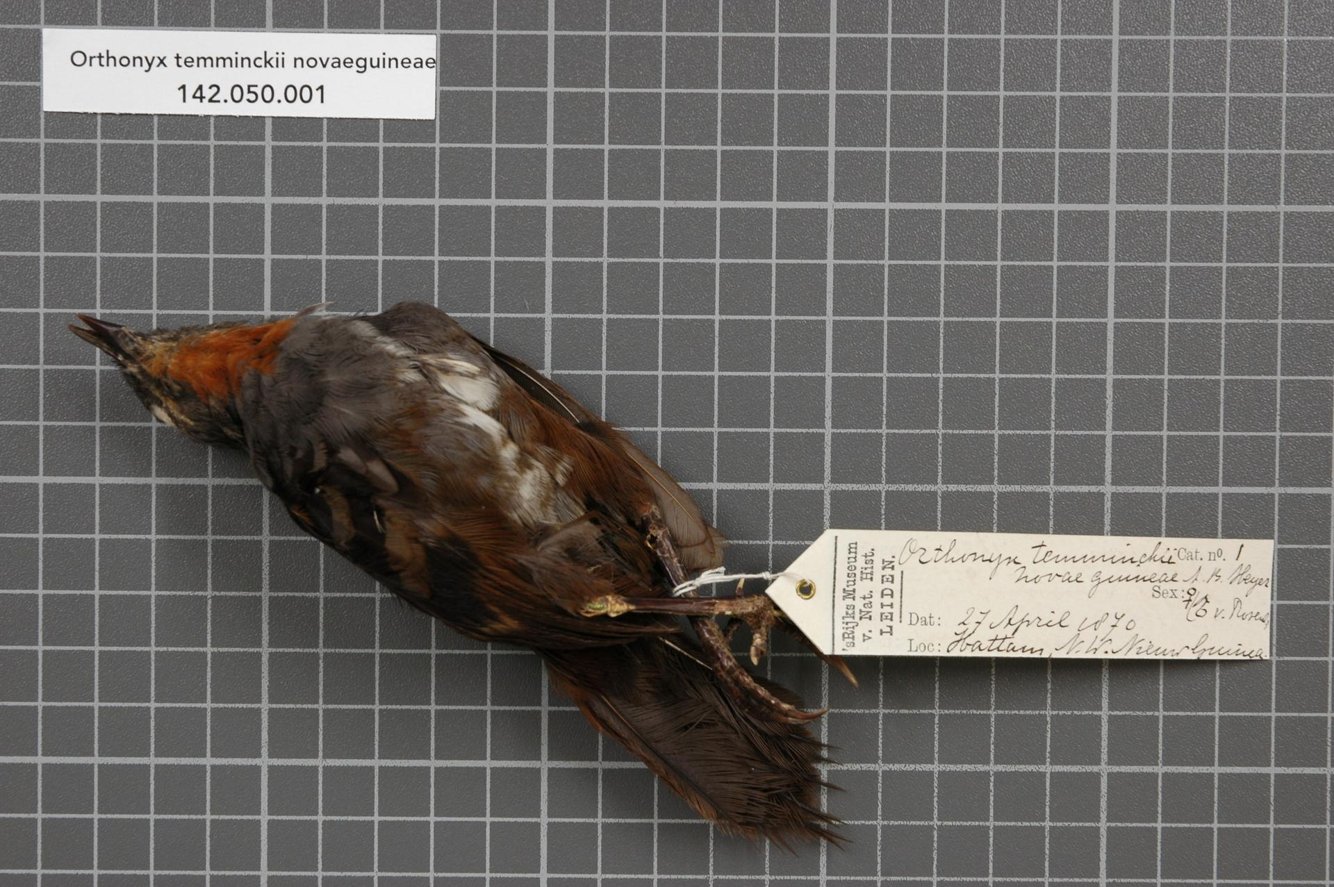 Orthonyx temminckii novaeguineae Meyer, 1874